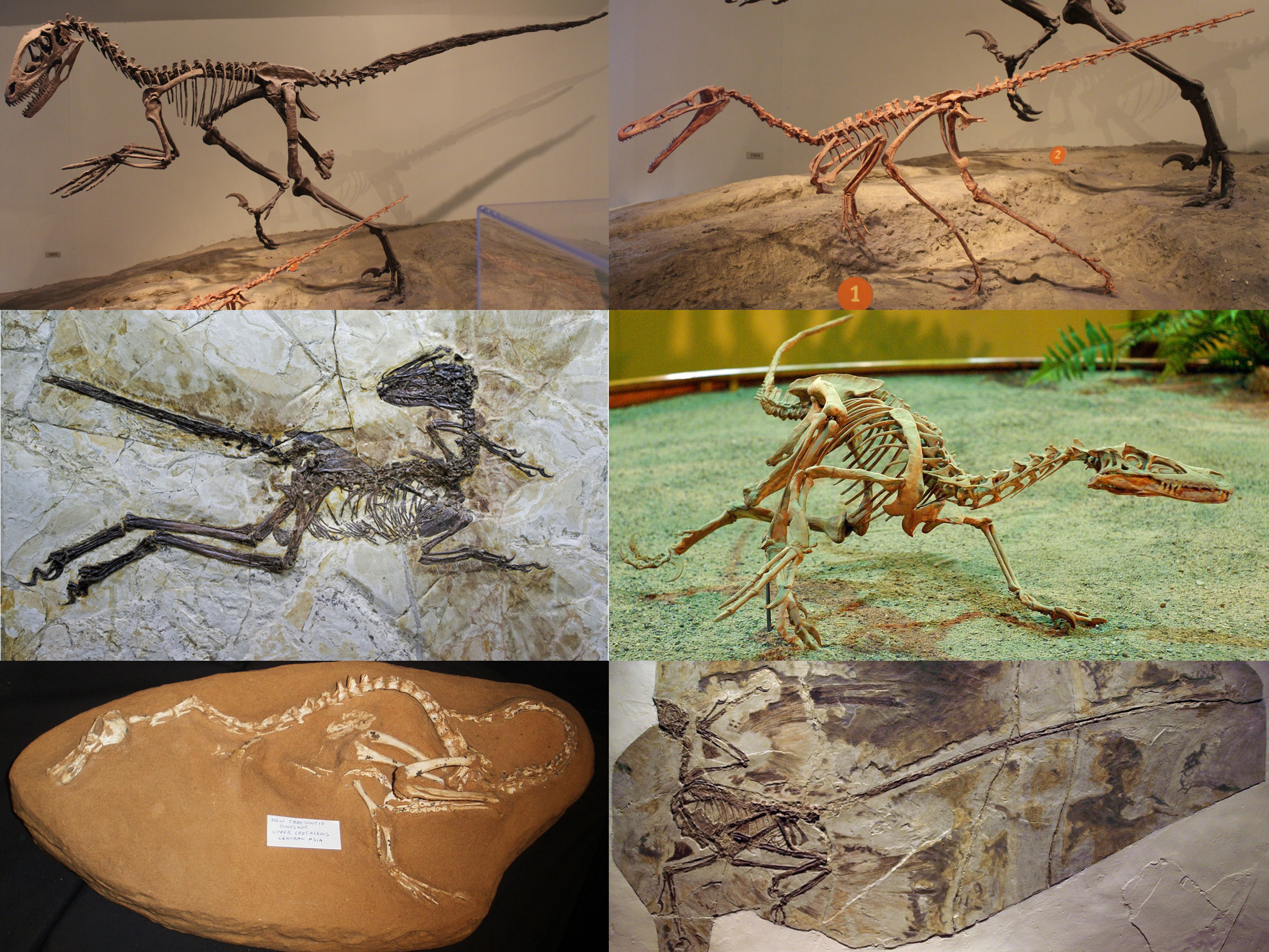 Montage of six dinosaur fossils: (clockwise from top left) Deinonychus antirrhopus, Buitreraptor gonzalezorum, Velociraptor mongoliensis, Microraptor gui, Halszkaraptor escuilliei, and Zhenyuanlong suni. This is a collection of six different works already found in Wikimedia Commons: File:Deinonychus FMNH.jpg File:Buitreraptor FMNH.jpg File:Velociraptor Wyoming Dinosaur Center.jpg File:MicroraptorGui-PaleozoologicalMuseumOfChina-May23-08.jpg File:Halszkaraptor escuilliei.jpg File:Zhenyuanlong.jpg All of them are either under a free license already in Wikimedia Commons or in the public domain